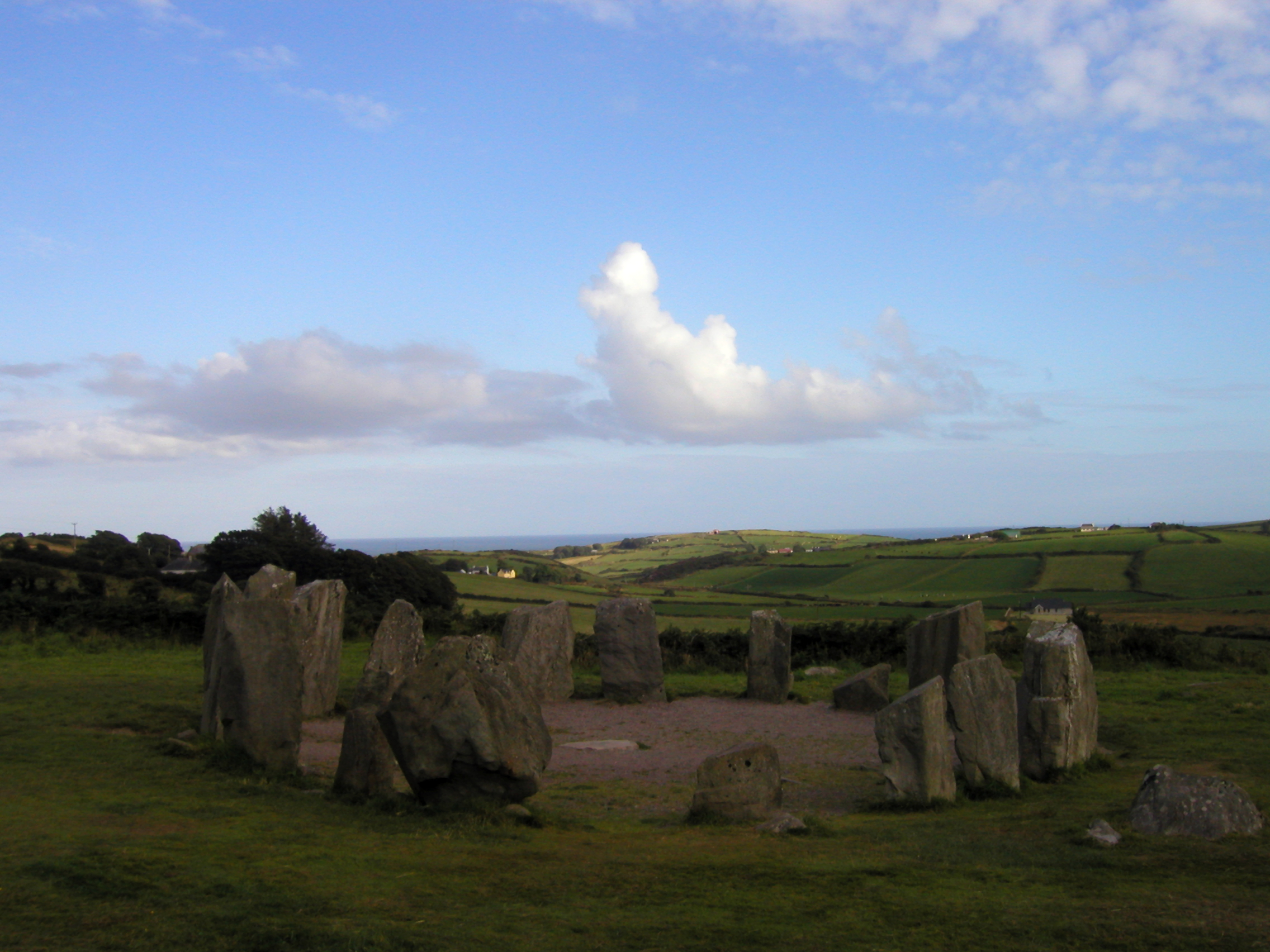 Droumbeag_Stone_Circle_in_Ireland